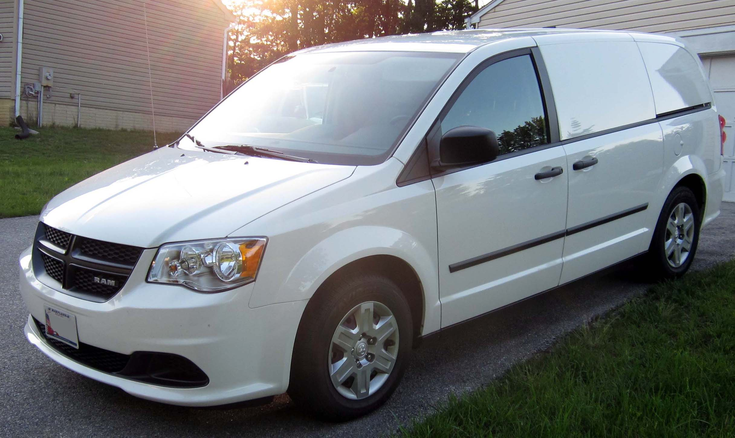 2012 Ram Cargo Van photographed in Fort Washington, Maryland, USA.